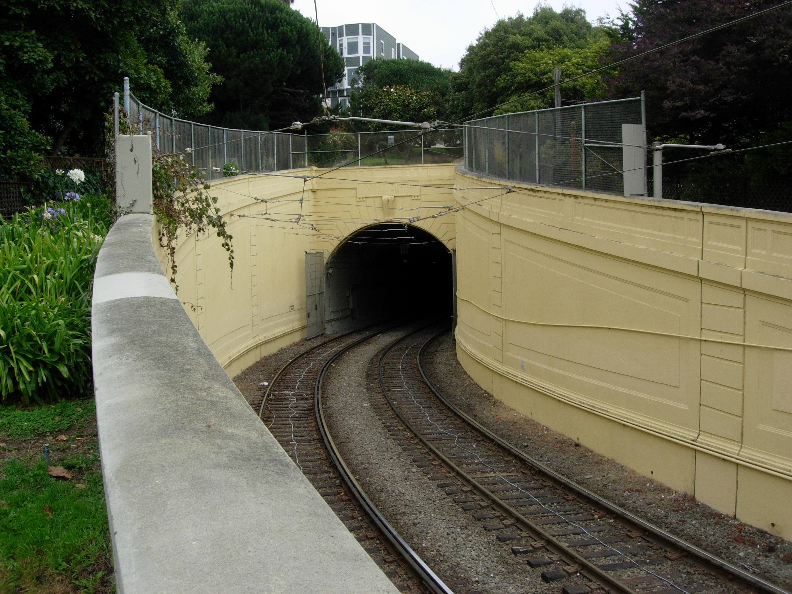 The western portal of the Sunset Tunnel, Muni Metro system. The lettering reads "Sunset Tunnel A.D. 1926". Taken by senor_k on 9/2/2006.